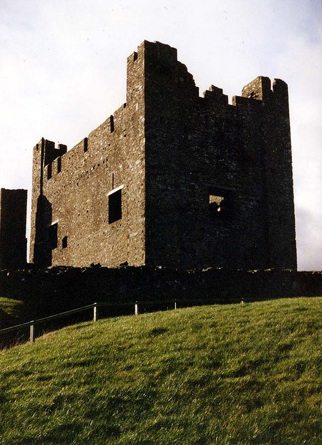 Greencastle